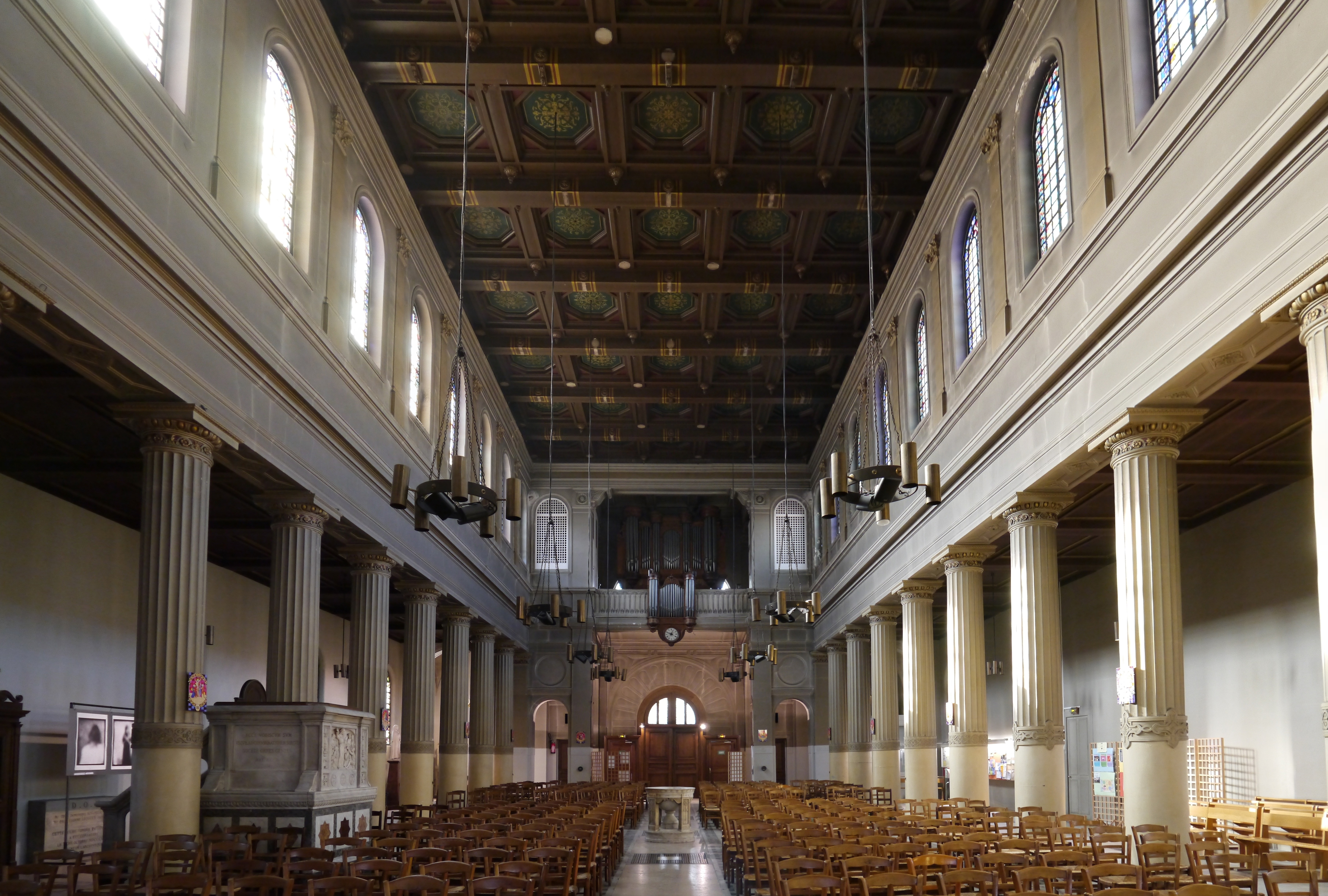 Église Saint-Jacques-Saint-Christophe de la Villette, Paris. View of the nave towards the front door.